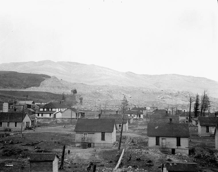 View of part of town of Frank, Alta., and East end of slide.